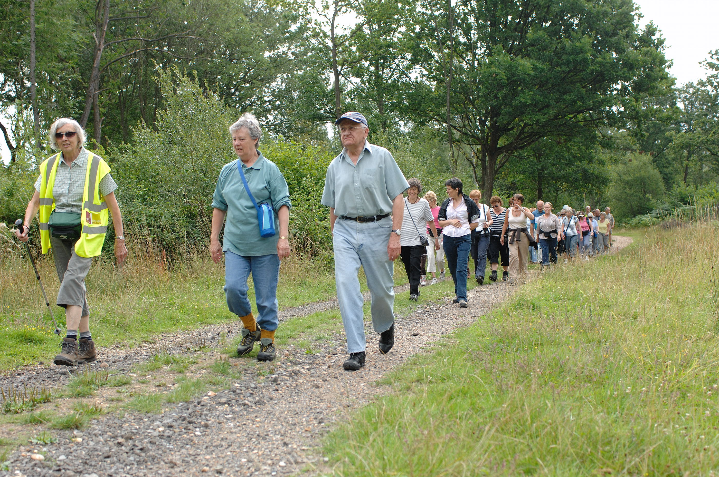 Walking for Health in Epsom, England. A group of walkers are following the walk leader, who is wearing a yellow jacket.